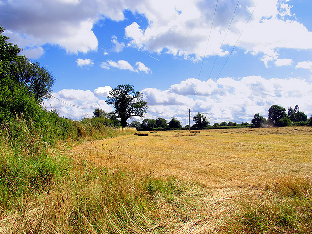 Haymaking near Greenham. This field was in the process of being mown for hay. This square contains some of the village of Bishops Green and is mostly farmland. This field is in the western half of the square, near the intersection of the minor road and Hyde Lane.